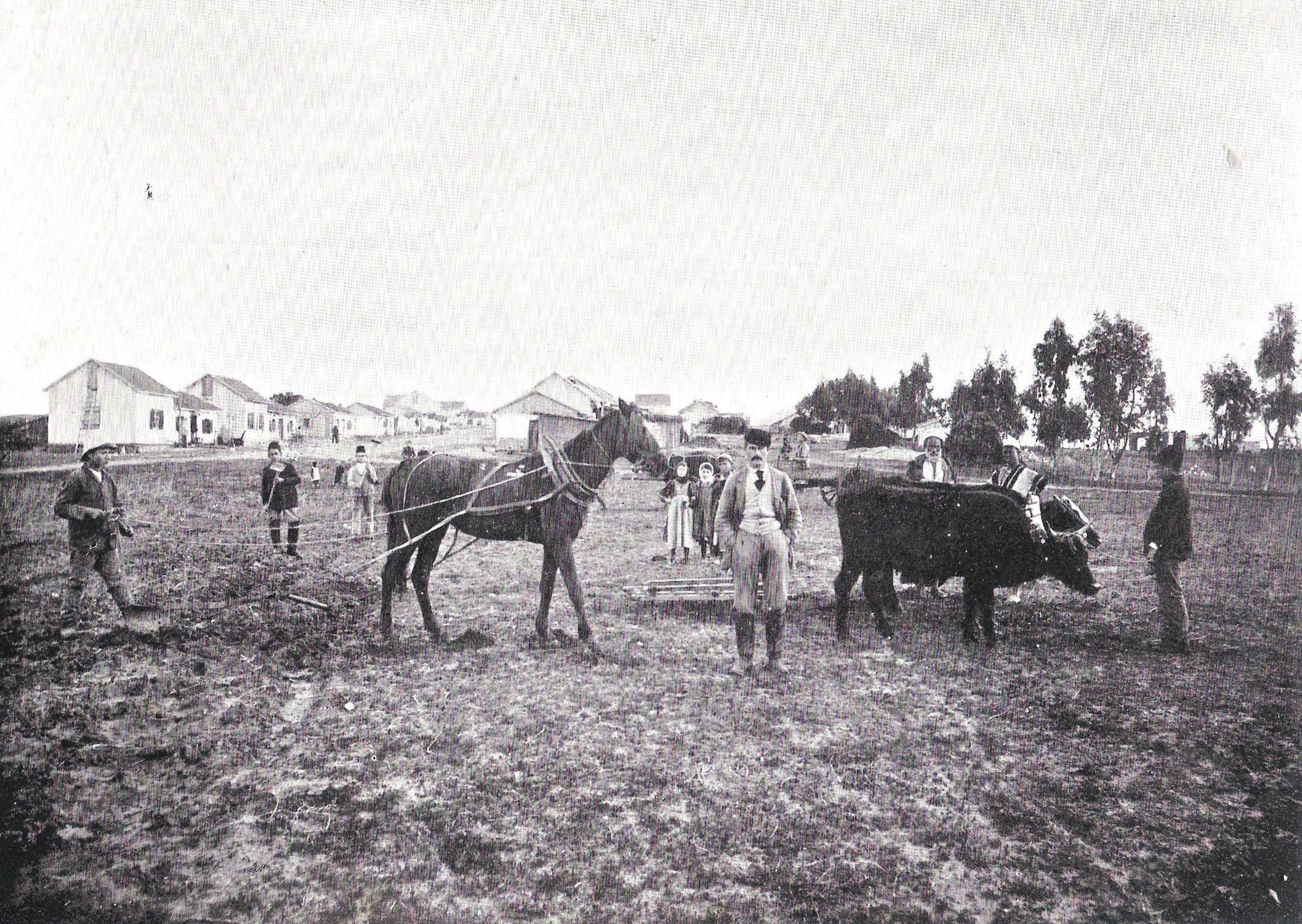 The picture are from old book (that was published in 1899), some of the picture are fro 1899, some are even older: This work or image is now in the public domain because its term of copyright has expired in Israel. According to Israel's copyright statute from 2007 (translation), a work is released to the public domain on 1 January of the 71st year after the author's death (paragraph 38 of the 2007 statute) with the following exceptions: A photograph taken on 24 May 2008 or earlier — the old British Mandate act applies, i.e. on 1 January of the 51st year after the creation of the photograph (paragraph 78(i) of the 2007 statute, and paragraph 21 of the old British Mandate act). If the copyrights are owned by the State, not acquired from a private person, and there is no special agreement between the State and the author — on 1 January of the 51st year after the creation of the work (paragraphs 36 and 42 in the 2007 statute). See also category: PD Israel & British Mandate. For the scan and the the crop: The name of the book (in hebrew) is: "מראה ארץ ישראל והמושבות" by (in hebrew): "ישעיהו ראפאלוביטש ושותפו משה אליהו זאכס" Be'er Tuvia